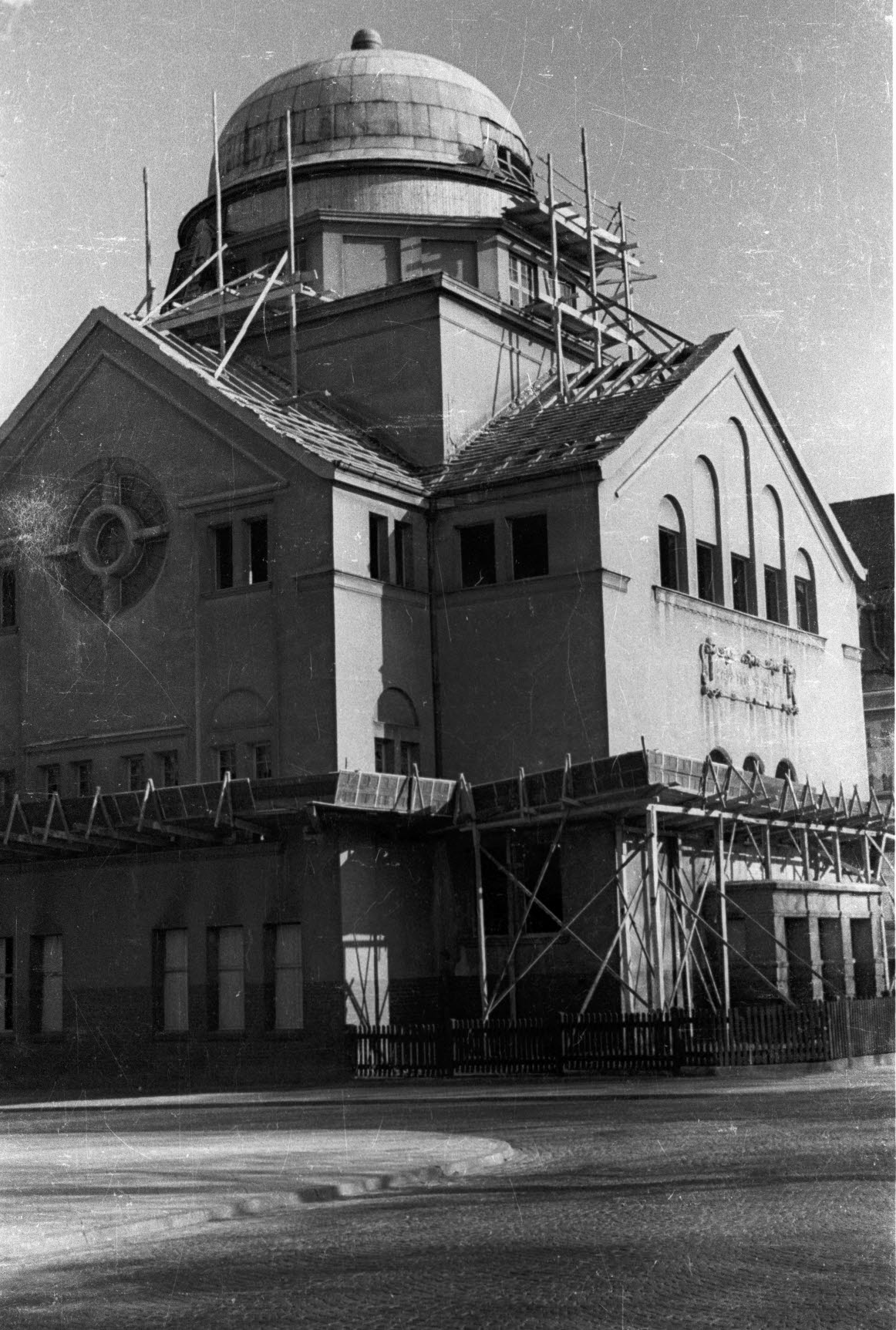 Demolition of the synagogue in the Humboldtstraße, corner Goethestraße, Kiel in 1939. Photographer: Friedrich Magnussen